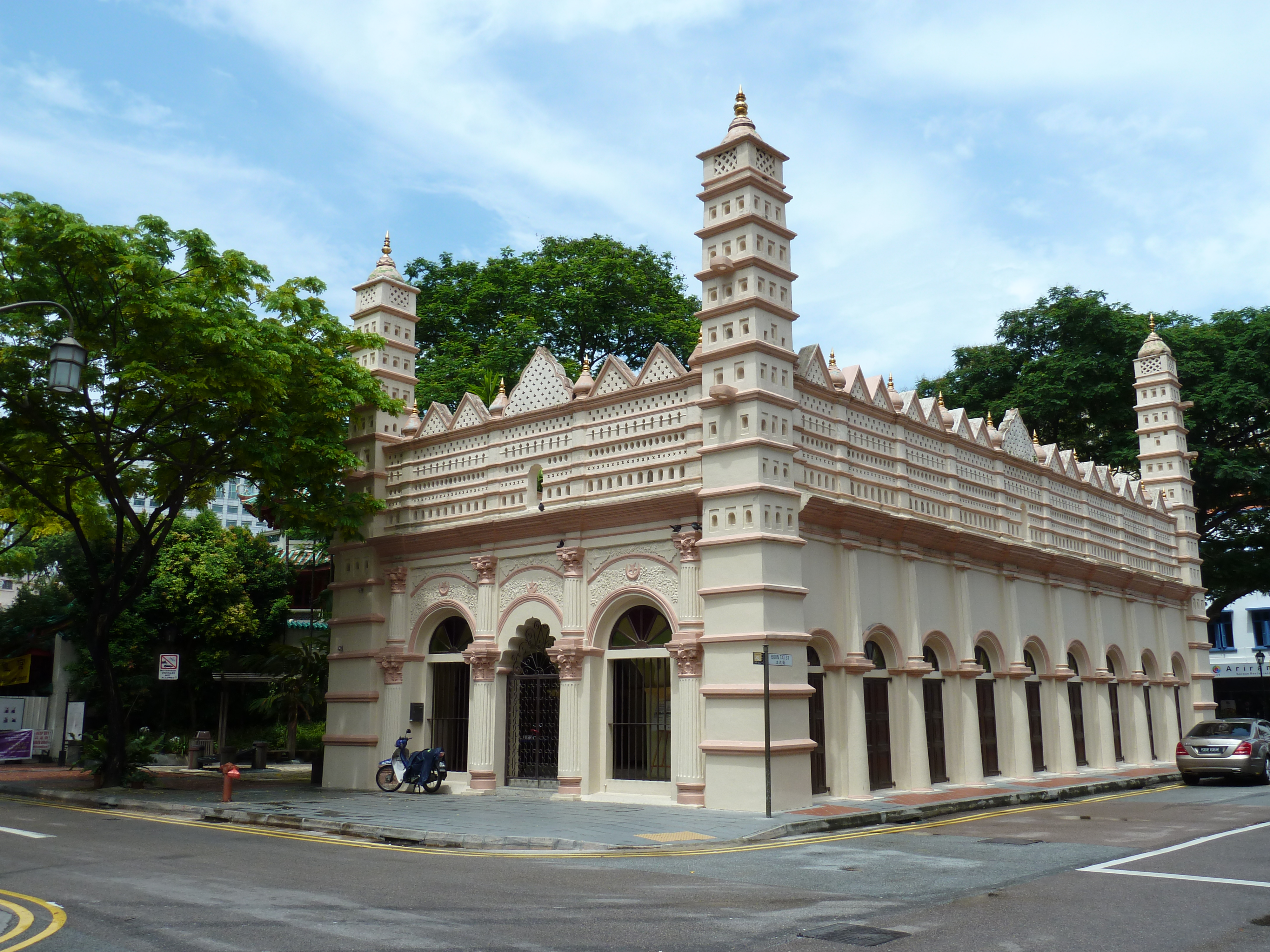 Nagore Durgha, Singapore.